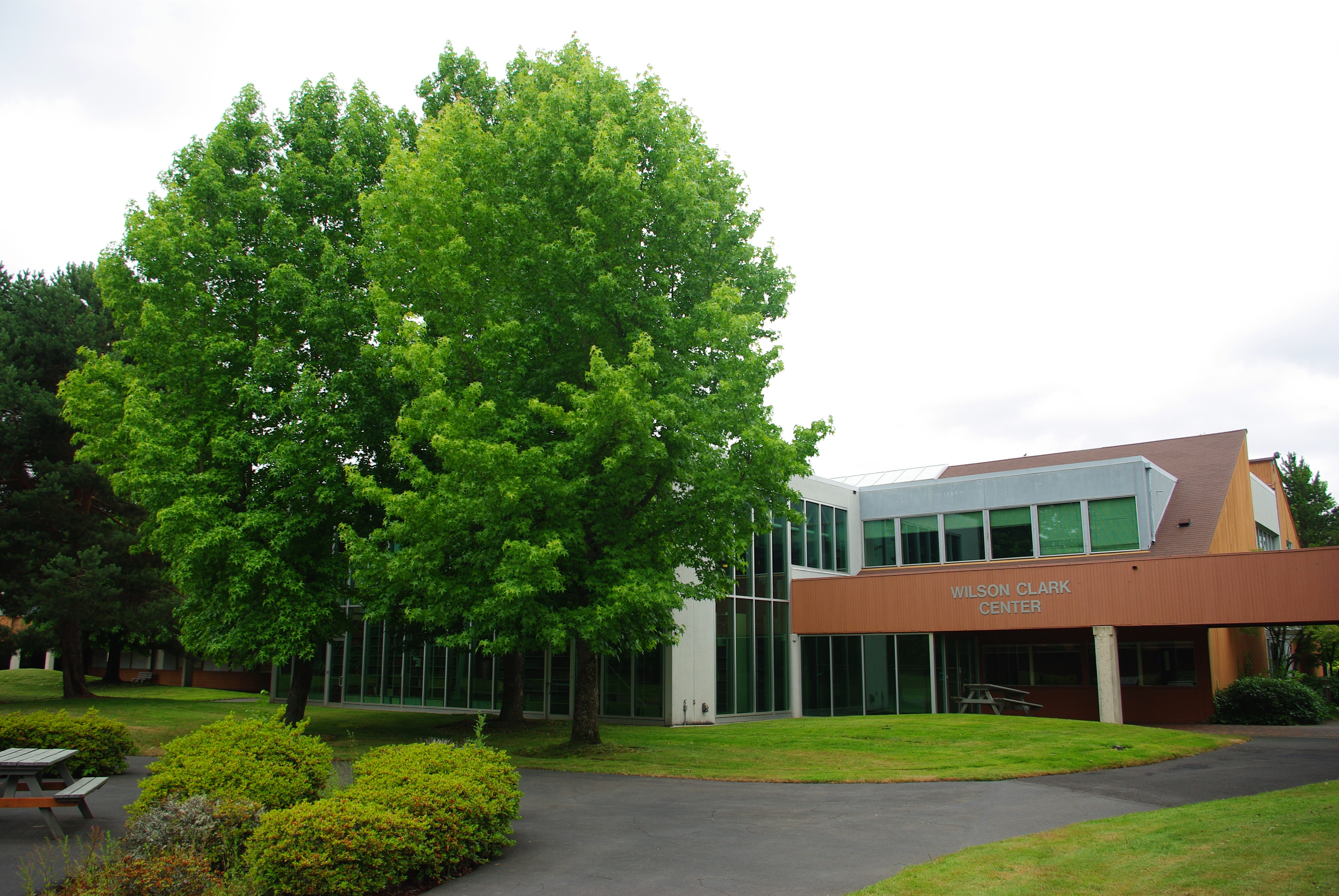 Oregon Graduate Institute in Hillsboro, Oregon